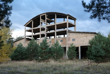 Hall for the „Mouse“ on the Neue Verskraft, Army Experimental Station Kummersdorf, 2013